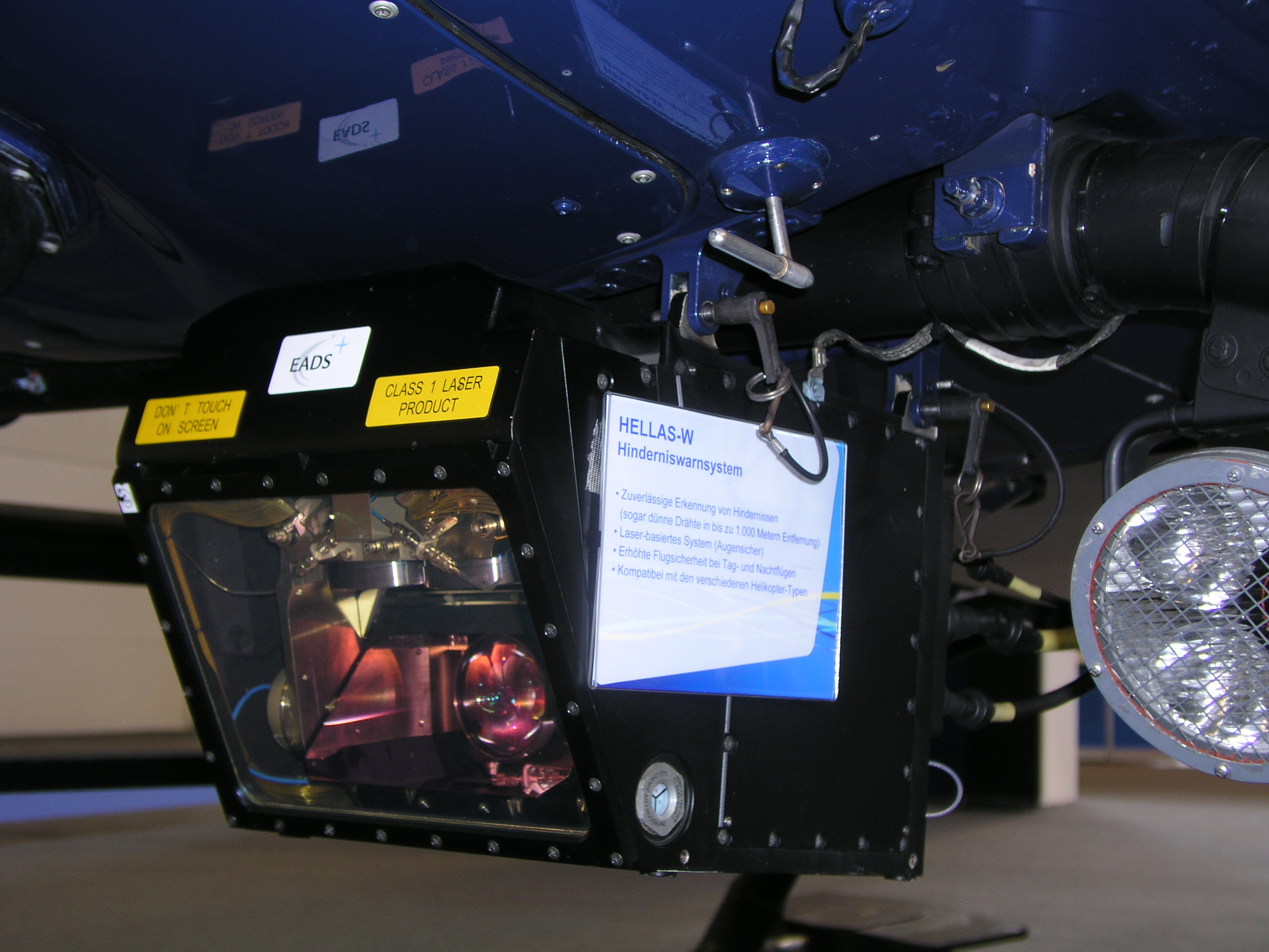 HELLAS-System (Helicopter Laser Radar) mounted on the EC-135 of the German Federal Police.